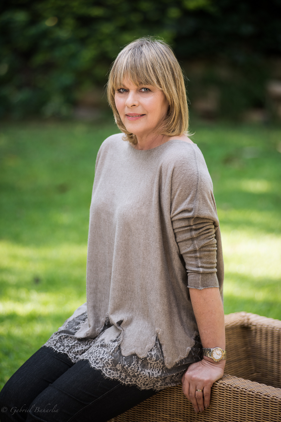 Rina Mor, formerly Rina Messenger, Israeli lawyer and Miss Universe 1976